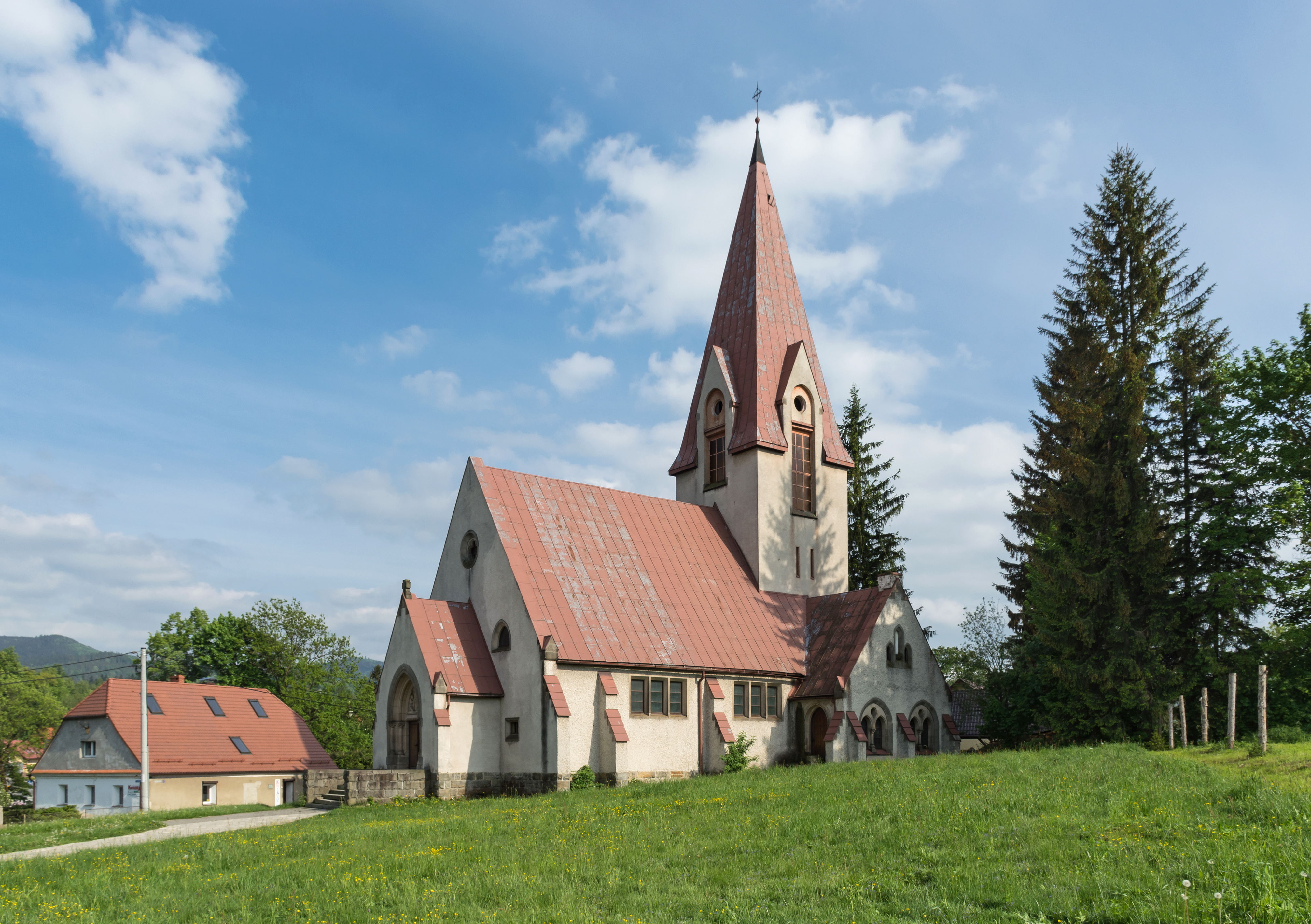 Christ's Resurrection Church in Stronie Śląskie Ta fotografia przedstawia zabytek wpisany do rejestru zabytków pod numerem ID 593114